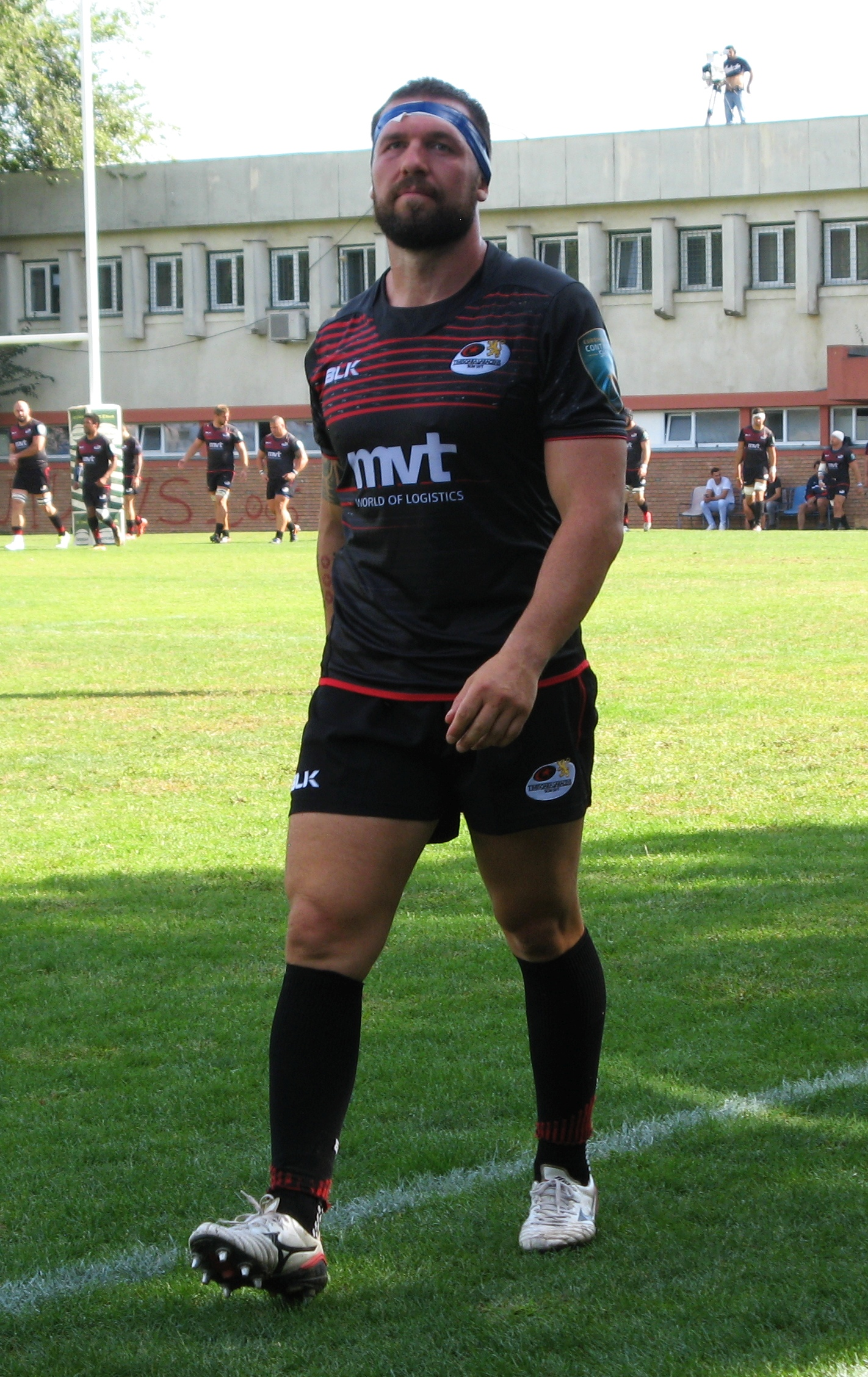 Romanian rugby union football player Andrei Rădoi, player of Timișoara Saracens rugby club seen during a match against CSA Steaua București in Round 3 of Romanian Rugby SuperLiga in September 2018